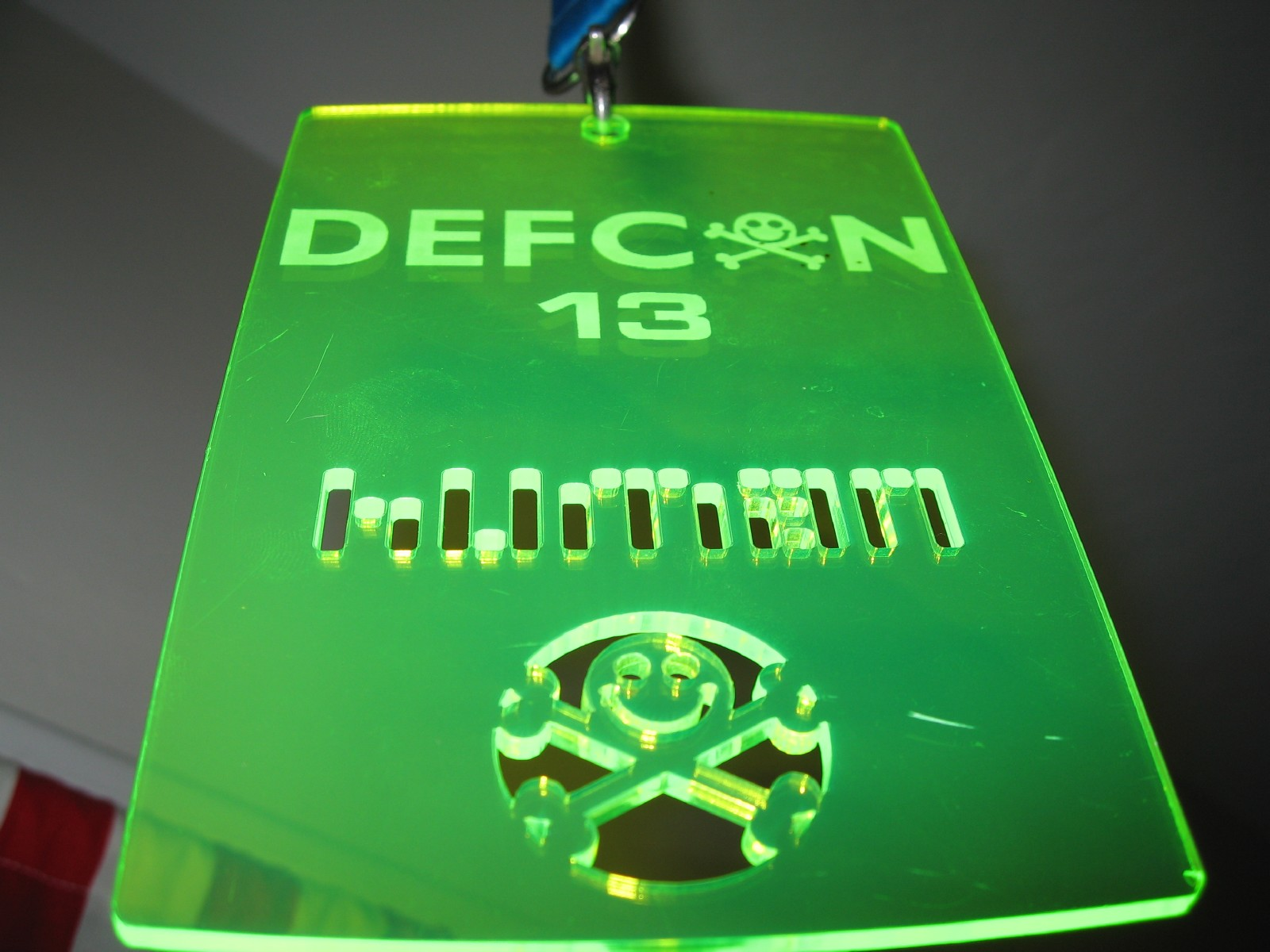 Badge of Defcon 13 (2005)